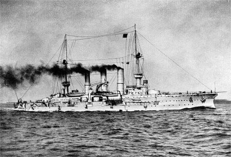 Armoured cruiser SMS Prinz Adalbert, Imperial German Navy